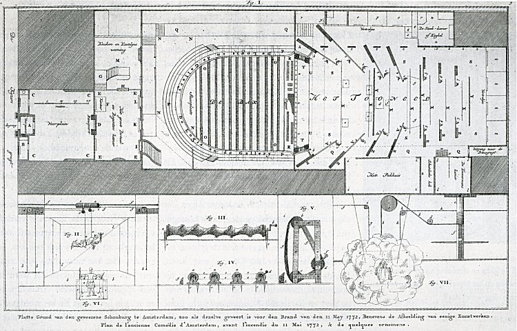 floorplan Vingboons Theater (1665)